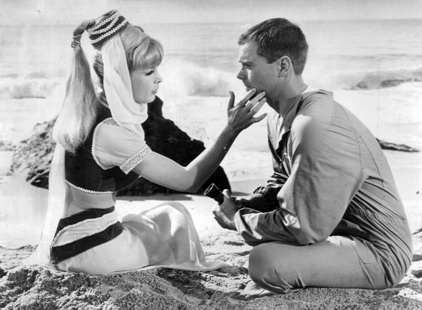 Publicity photo of Larry Hagman and Barbara Eden from I Dream of Jeannie.